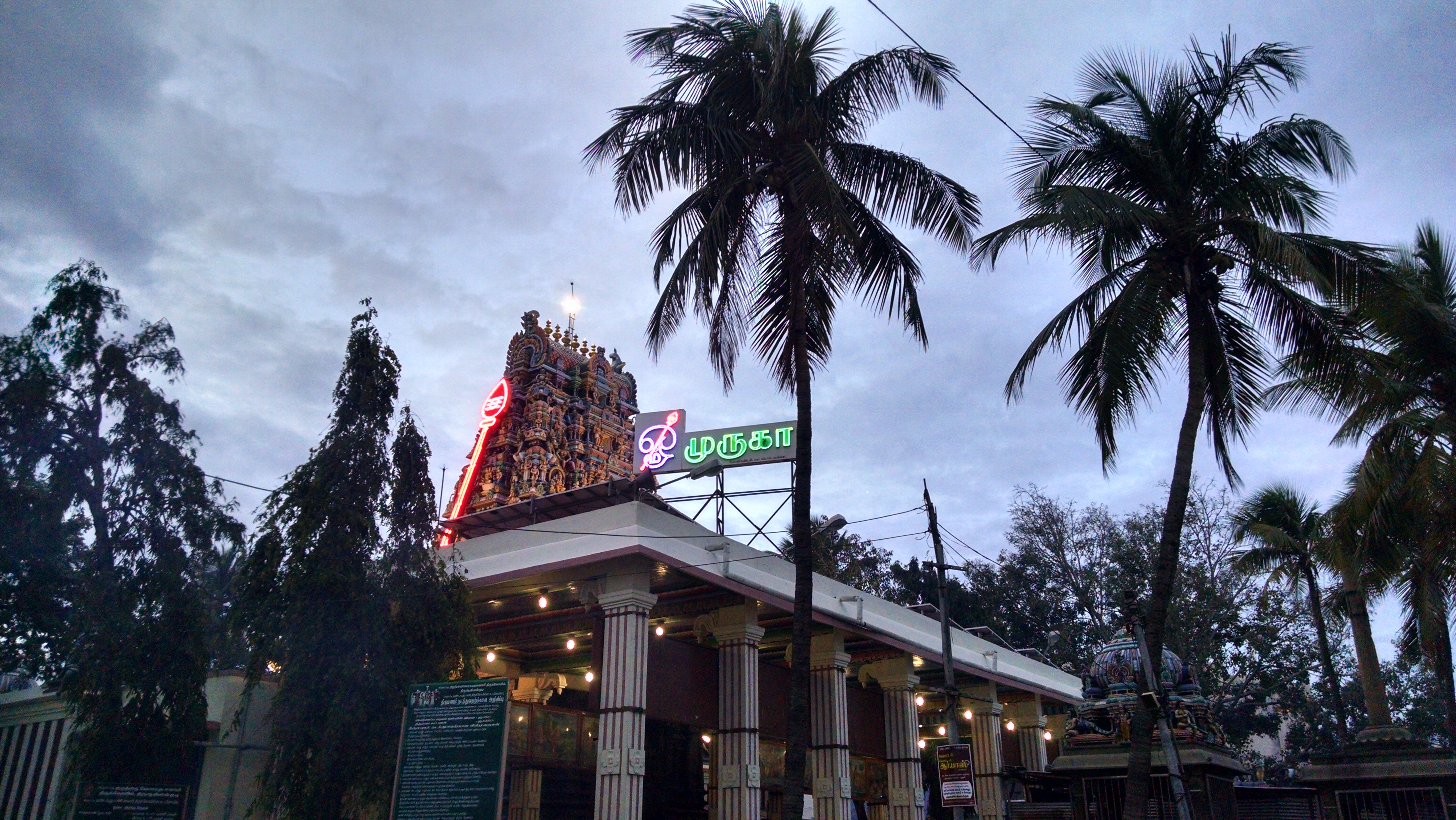 Thiru Avinan Kudi Kulandhai Velappar Temple